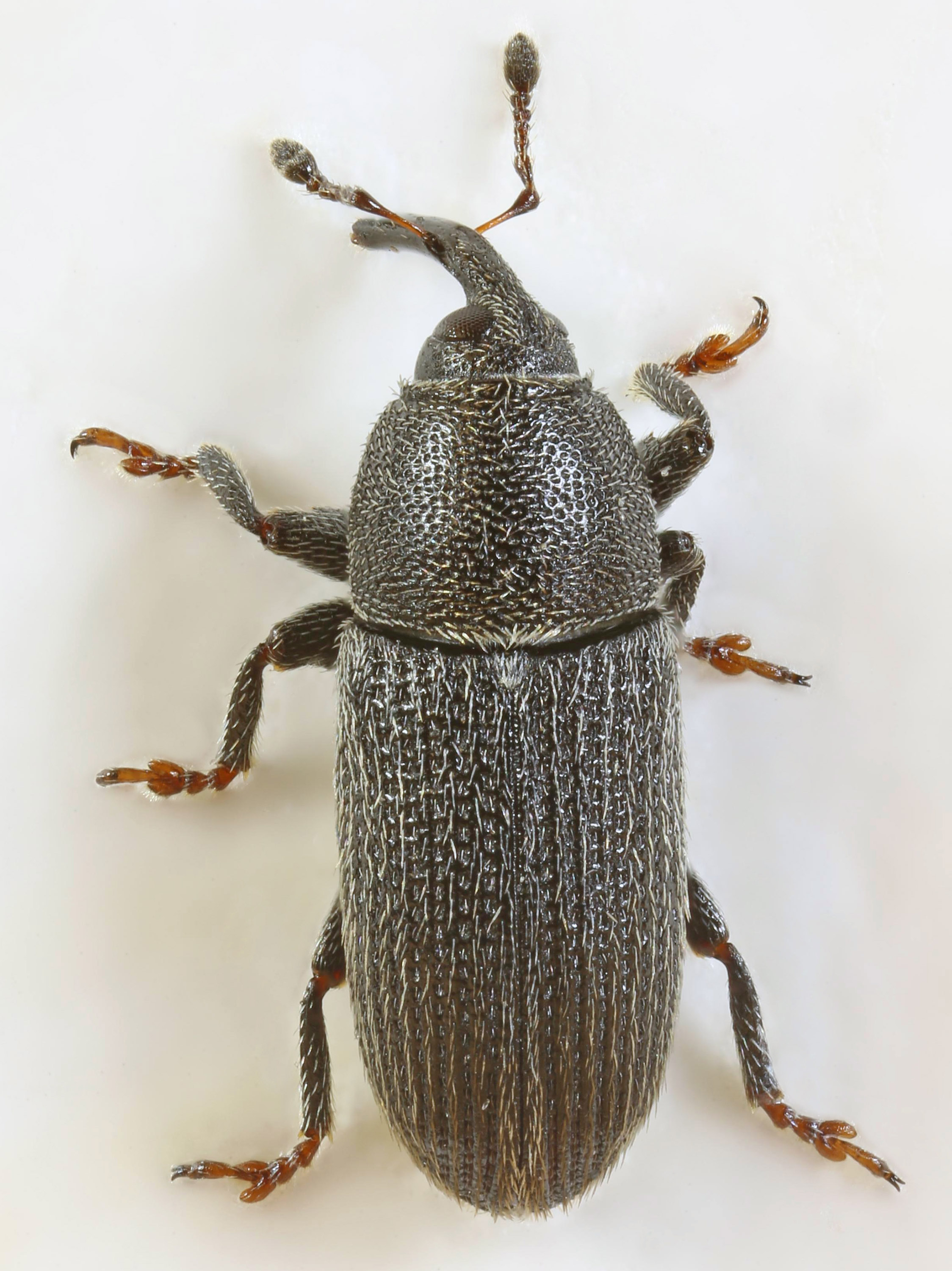 Mecinus pyraster, Bagillt, North Wales, July 2016 2